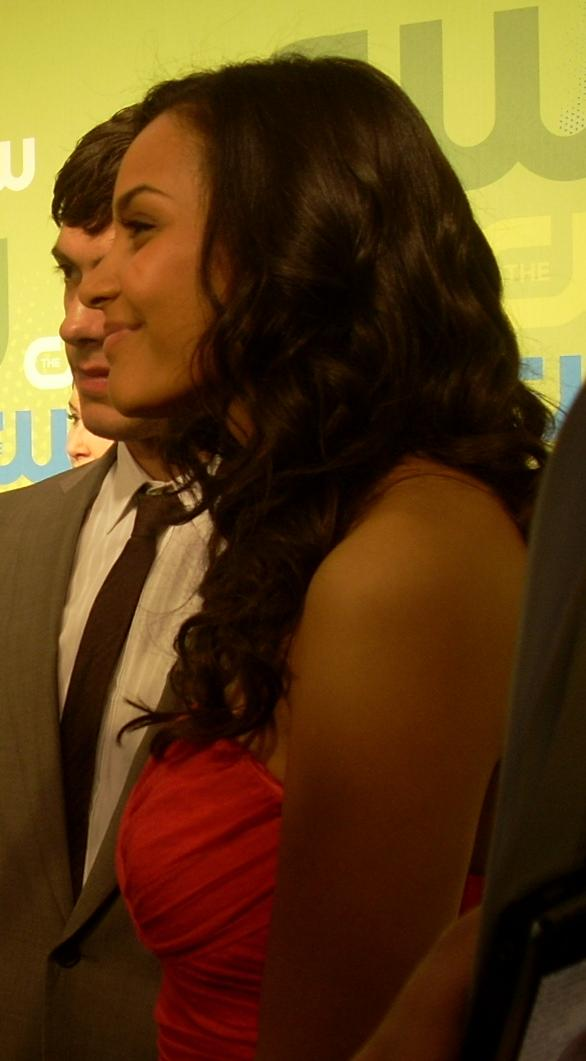 Jessica Lucas – CW Upfront Presentation: Green Carpet Arrivals, Madison Square Garden, New York City.